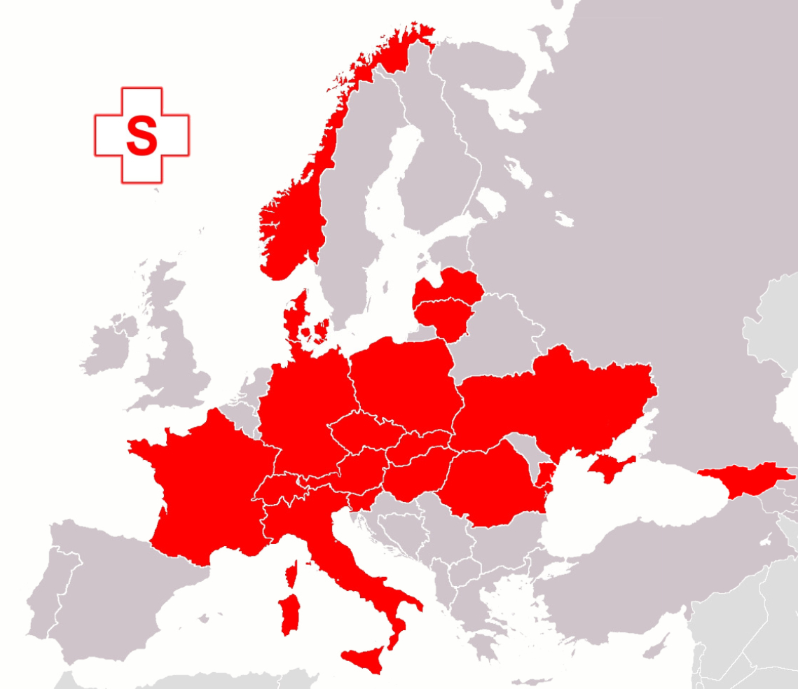 European map showing where samaritan organisations exist. Schematische Karte der Samariter-Organisationen in Europa. Inspiration